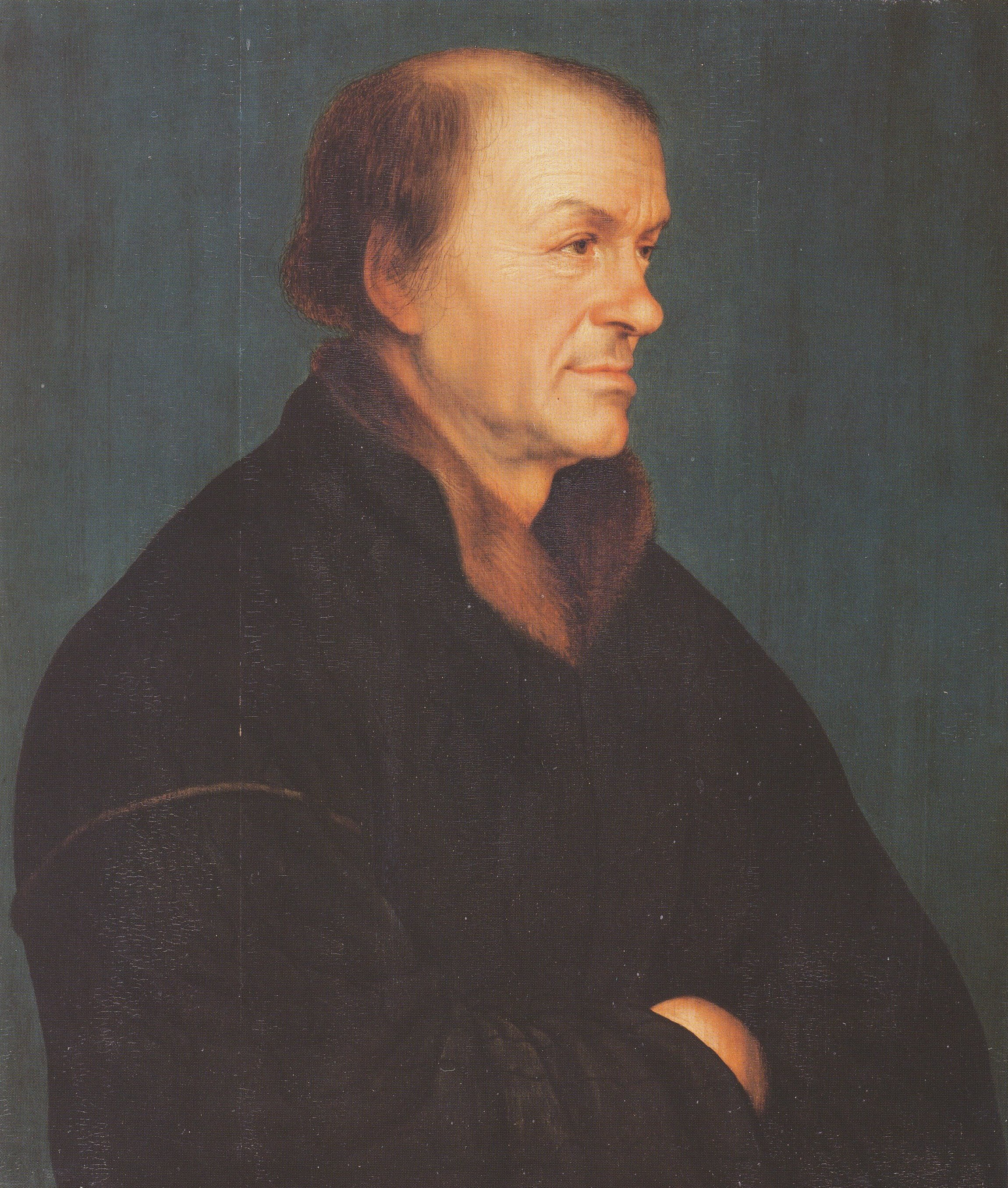 Portrait of the Book Printer Johann Froben. Oak, 395 × 335 mm, Basel, Kunstmuseum. Johann Froben (1460–1527) was a noted book printer in Basel. He was a close associate of Desiderius Erasmus, whose works he published and who, for a time, was a guest at his home. Hans Holbein the Younger met Erasmus through Froben, for whom he designed many book illustrations. He may have painted the original in the early 1520s, prior to his departure for England in 1526. (Reference: Müller, et al, pp. 296–98.)